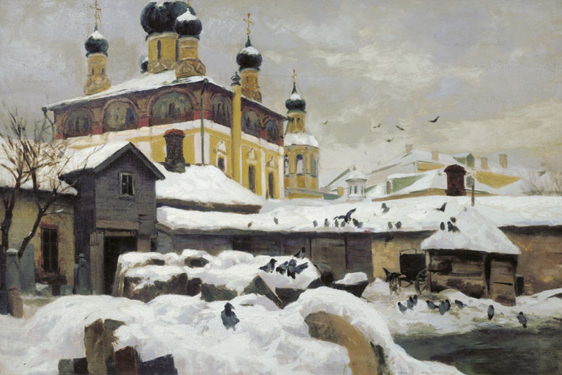 The Yard